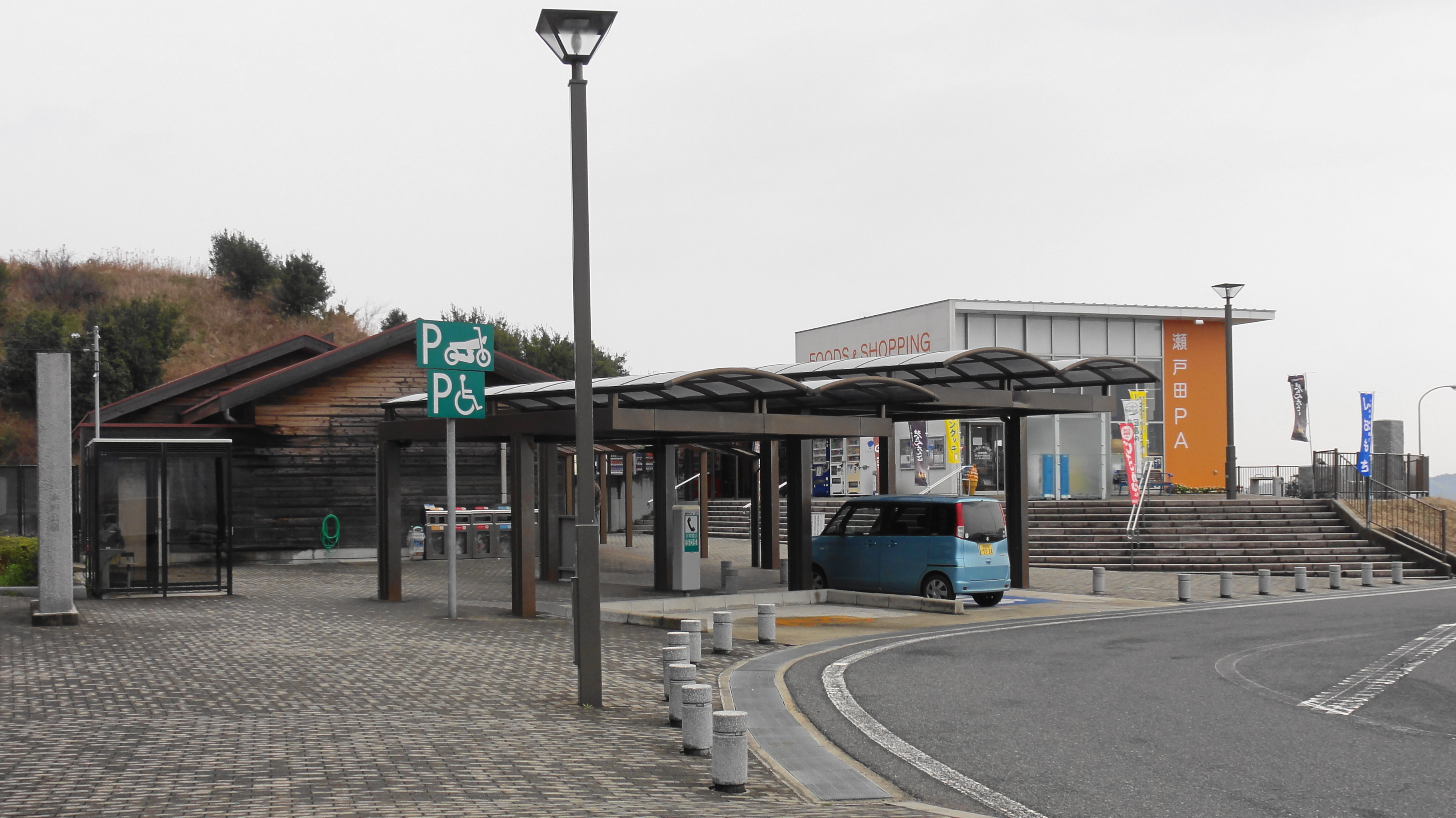 Setoda Parking Area nobori, Hiroshima prefecture, Japan